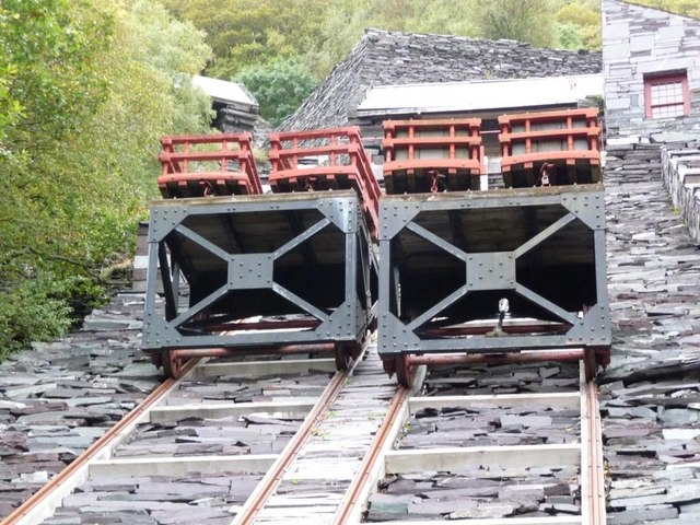 Restored inclined plane, Llanberis. The slate valleys are full of disused inclined planes. How great to see one restored to working order.